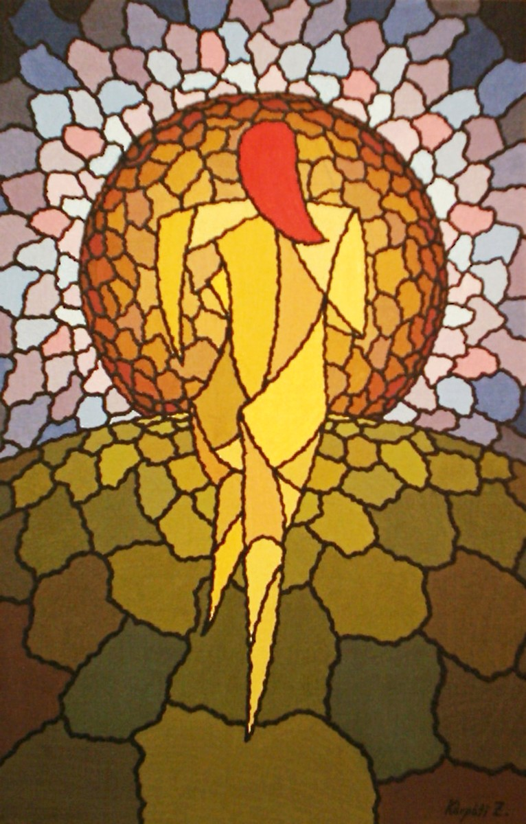 Zoltán Kárpáti Pursuit